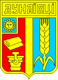 Coat of Arms of Dunaivtsi city in USSR